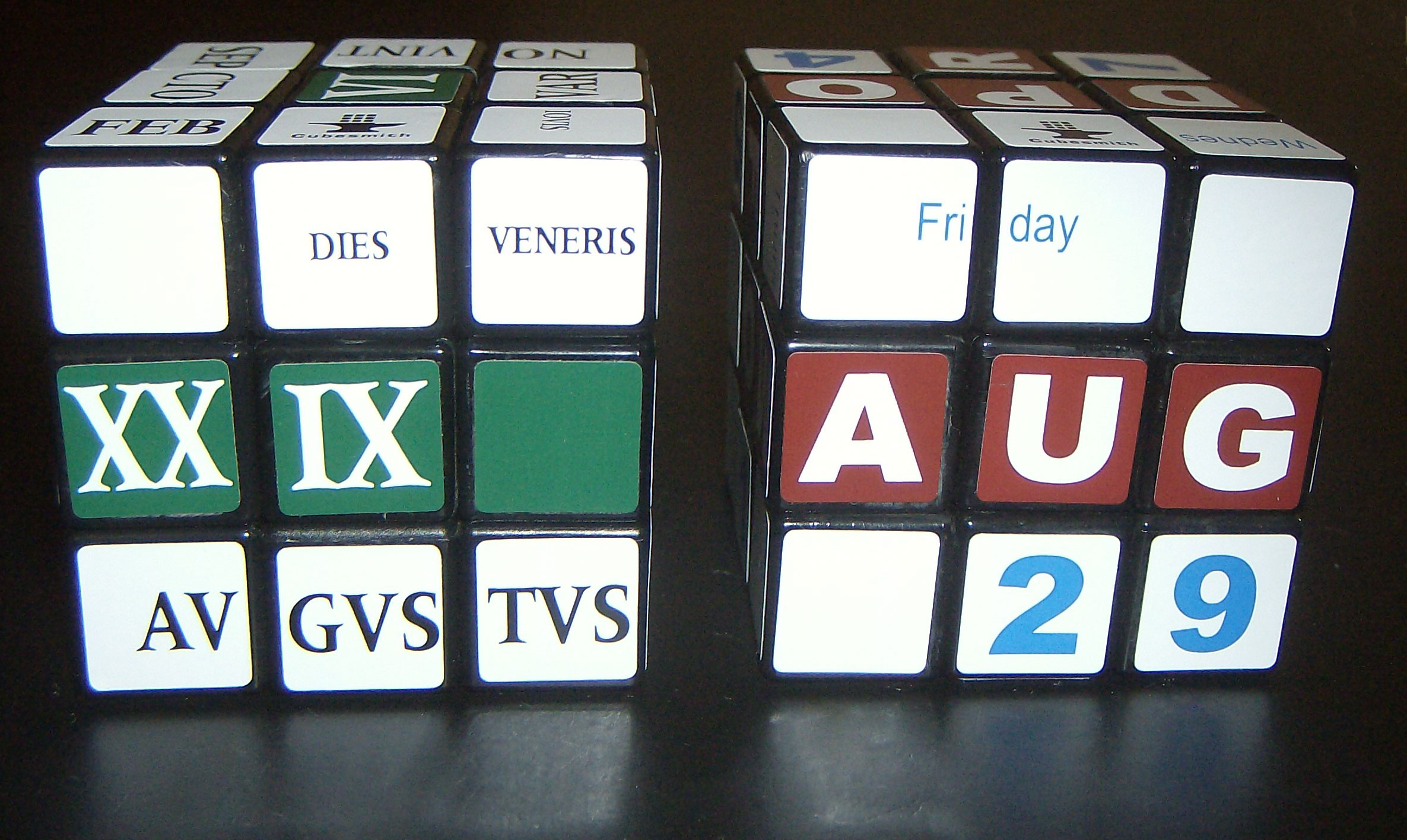 Two calendar cubes, displaying the date in English and Latin. The date on the Latin cube is a direct translation of the English one.